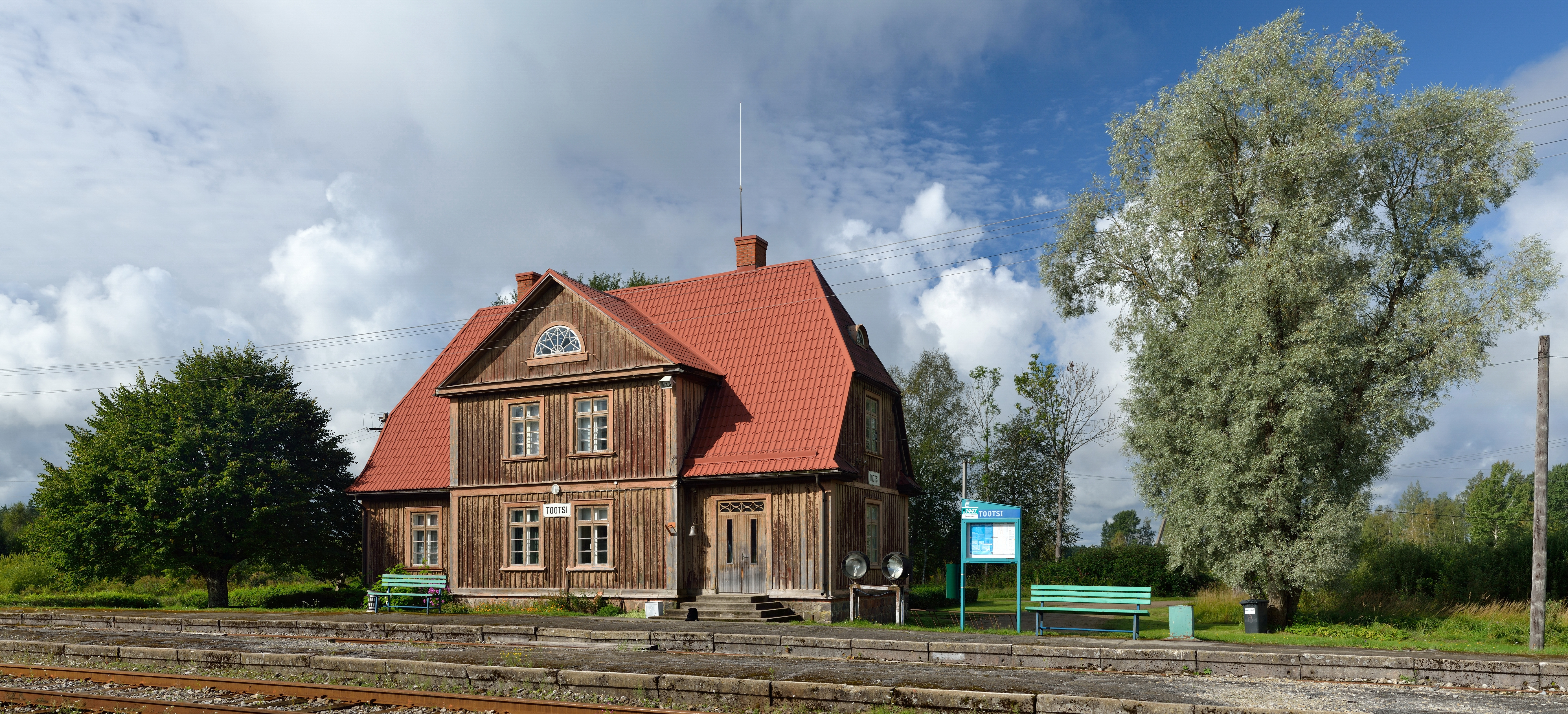 Tootsi station building (Estonia), built in 1927 (typical project from Leon Johanson).